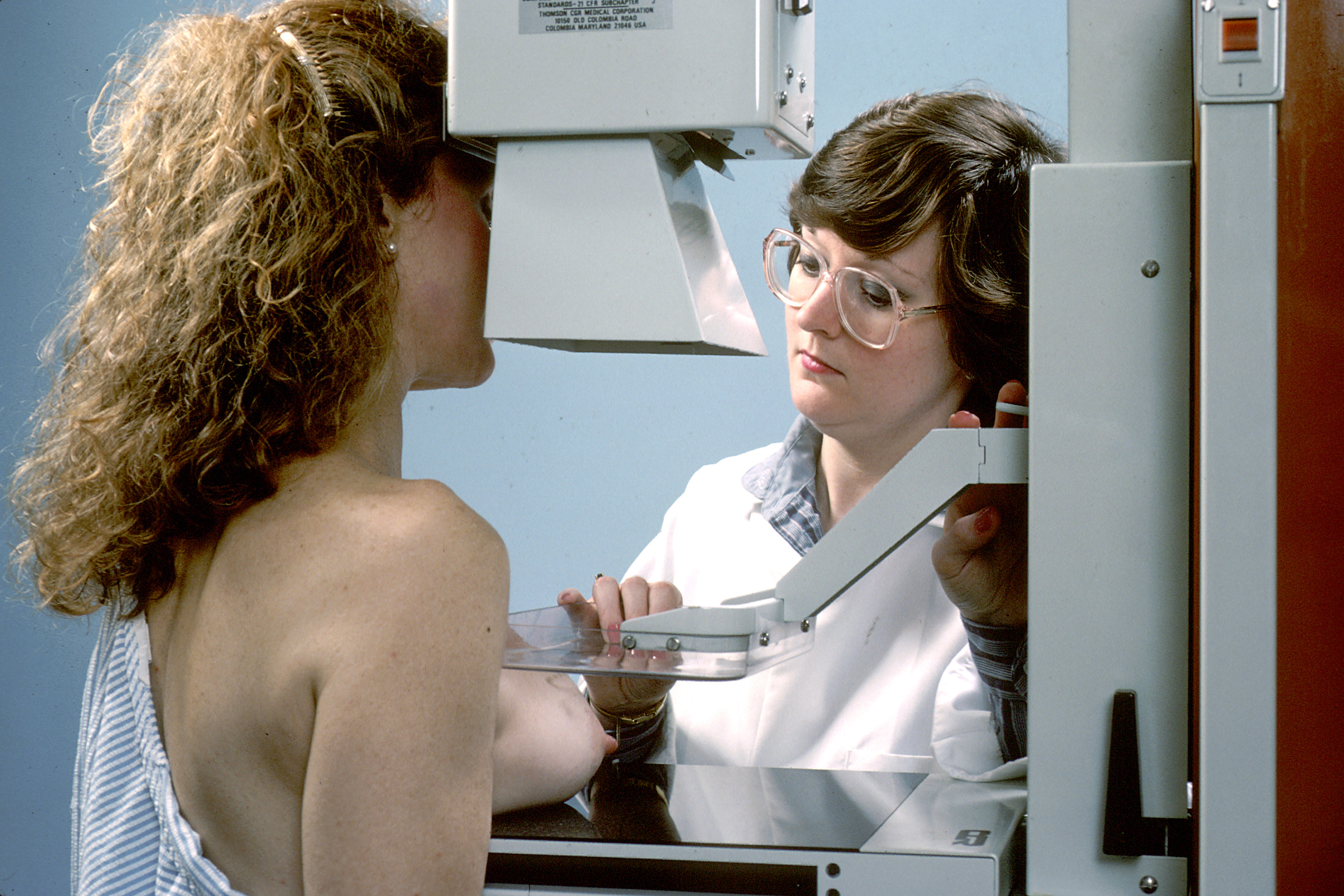 Title Mammography Description A female Caucasian radiology technician preparing a 42 year old Caucasian woman for a mammogram. The technician is positioning the paddle that compresses the breast. The patient's face is turned towards the technician, away from the camera, and her right shoulder and breast are exposed. Topics/Categories Anatomy -- Breast People -- Adult People -- Health Professional and Patient Test or Procedure -- Imaging Procedures Type Color, Photo Source National Cancer Institute